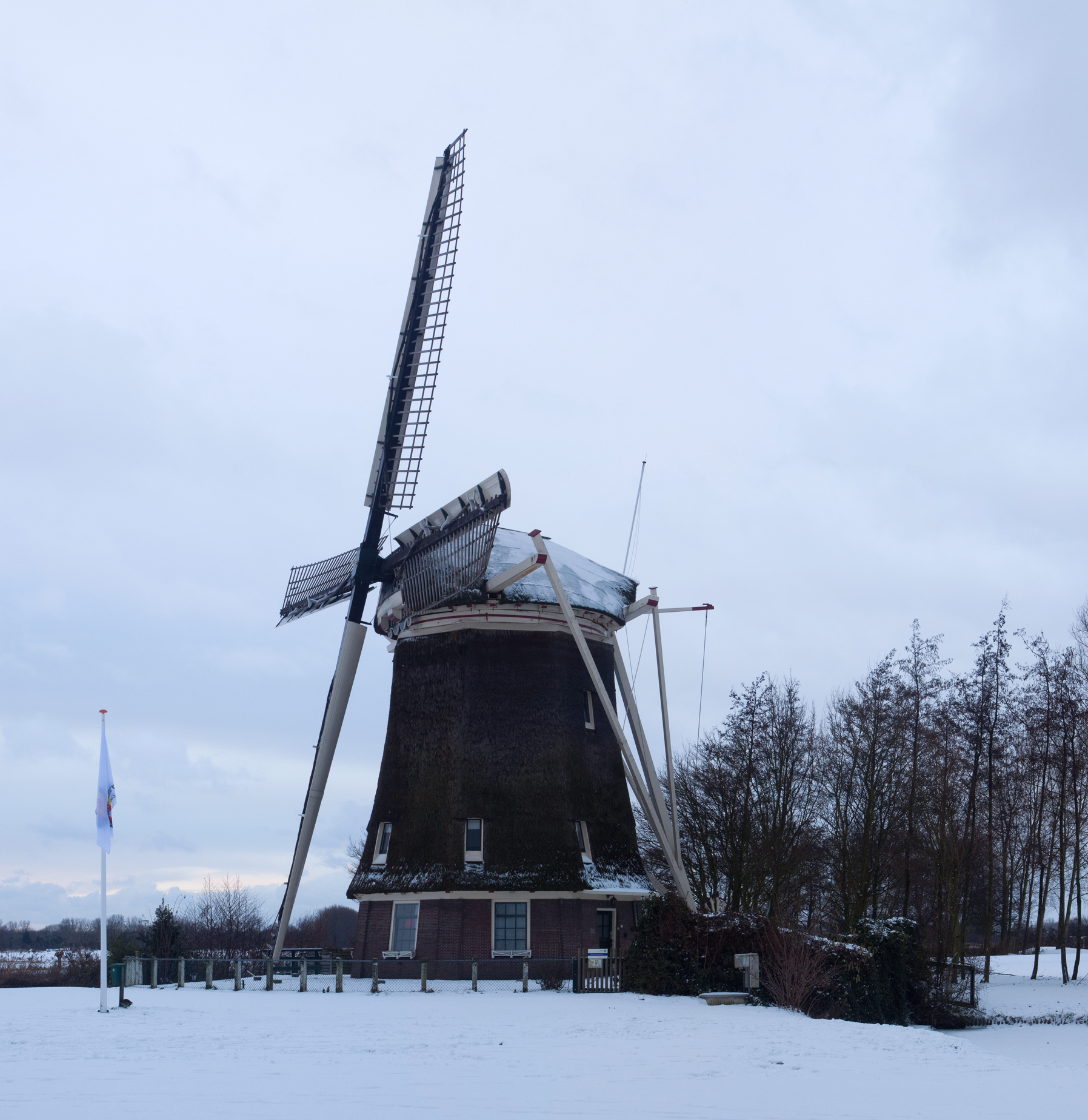 A traditional Dutch windmill (1100 Roe) standing in a winter landscape on the outskirts of Amsterdam, the Netherlands.